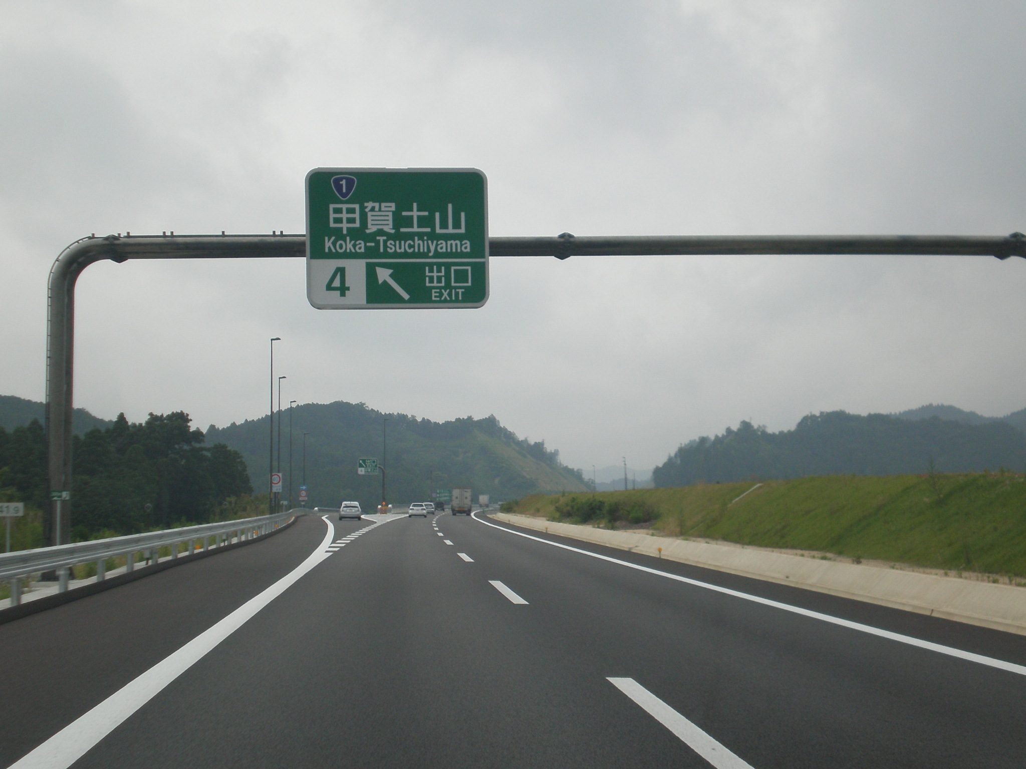 Exit sign for Koka-Tsuchiyama Interchange on the Shin-Meishin Expressway in Kokacho Iwamuro, Koka City, Shiga Prefecture, Japan